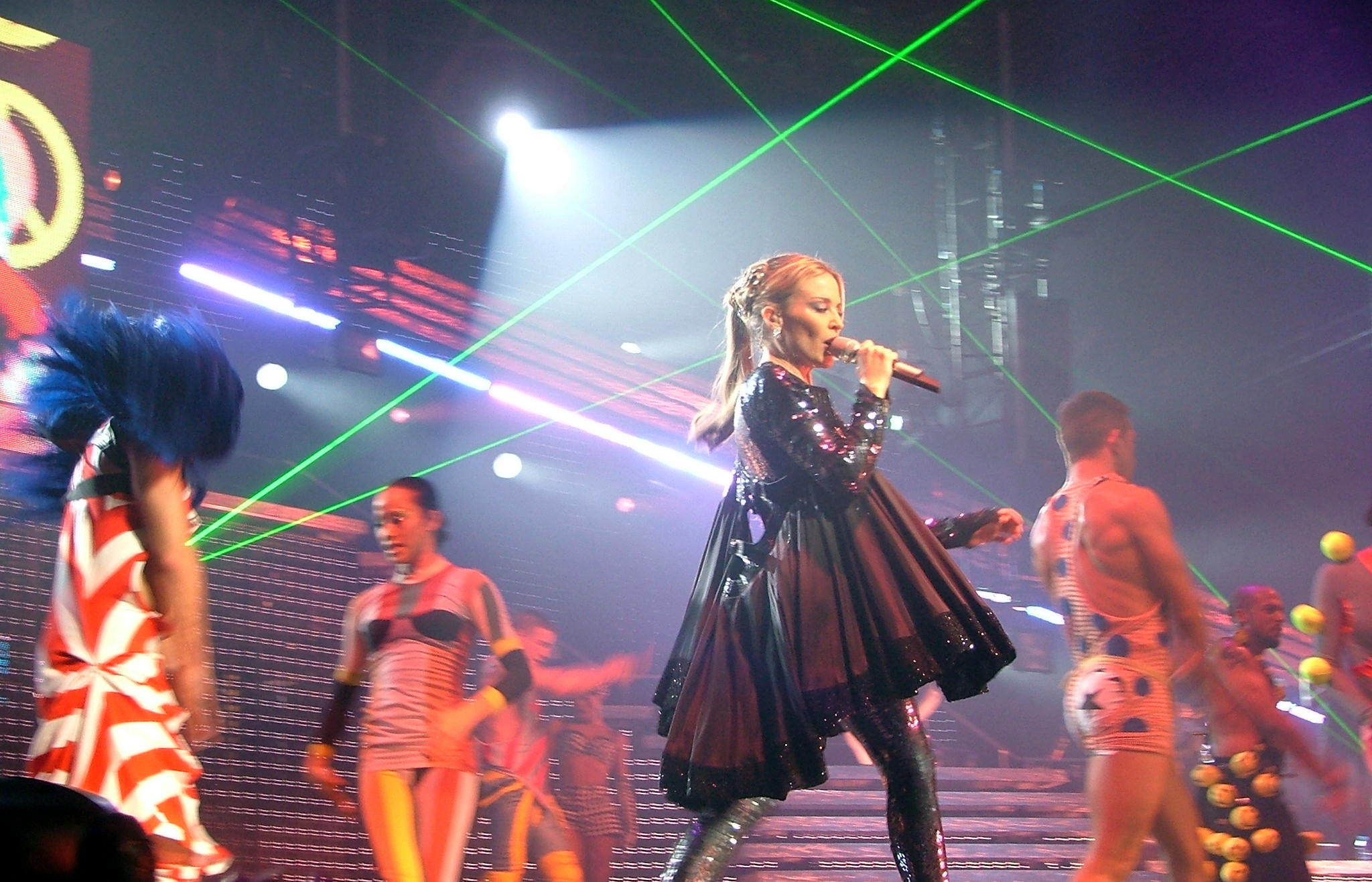 Kylie Minogue live in Paris - In Black - April 20th 2005